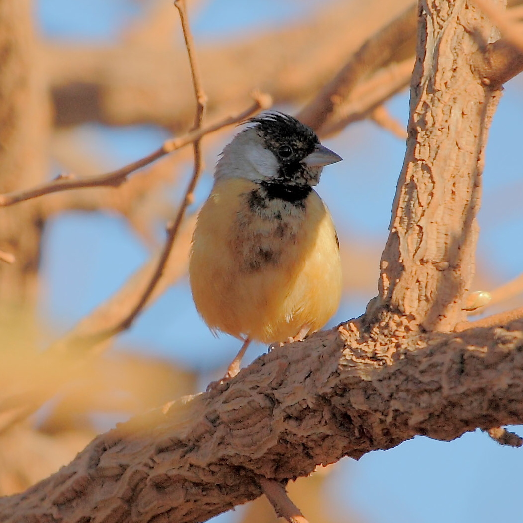 Coal-crested Finch (male) at Chapada dos Veadeiros - GO - Brazil